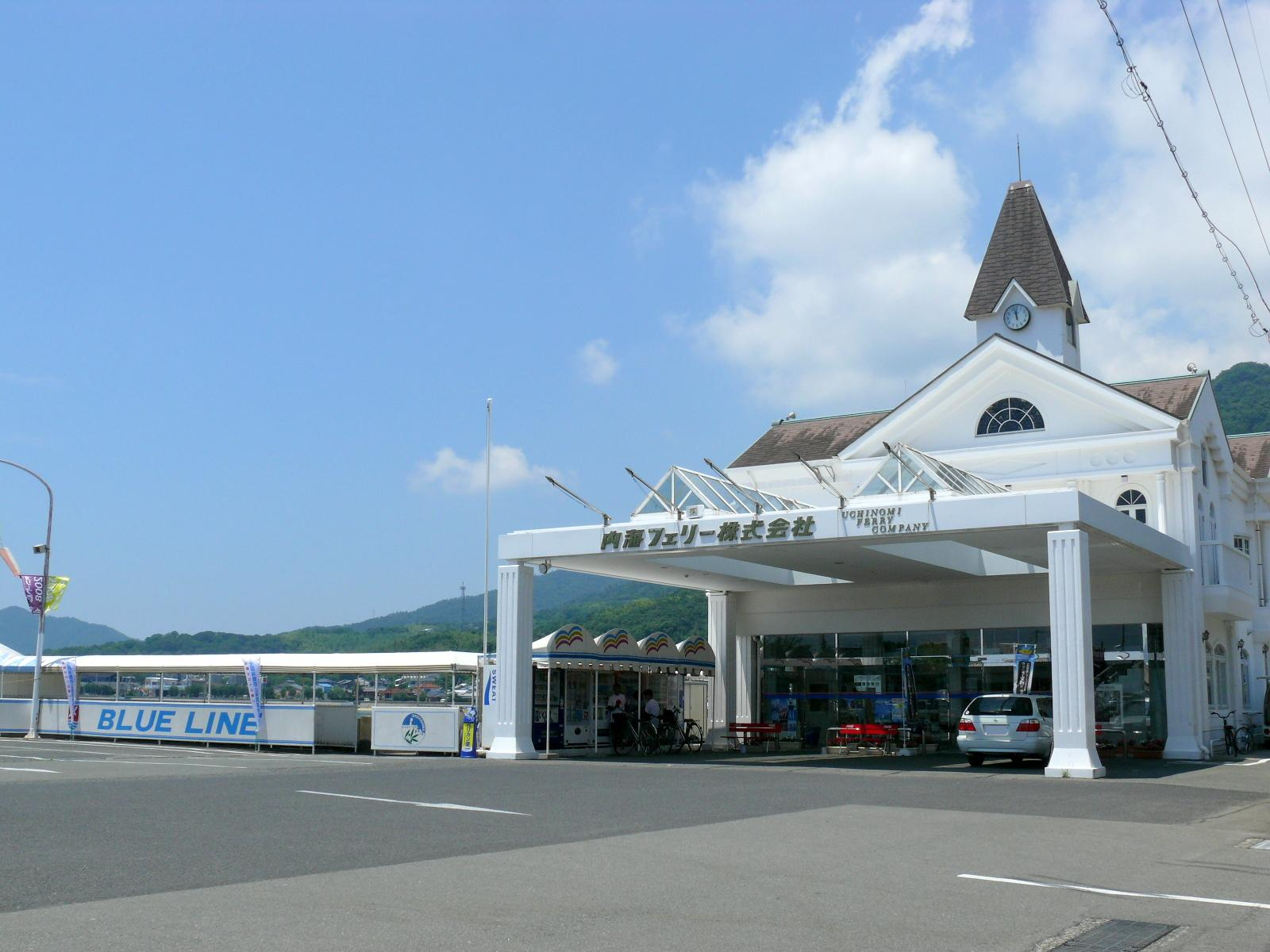 Uchinomi Ferry at Kusakabe port(Kagawa Prefecture, Japan).